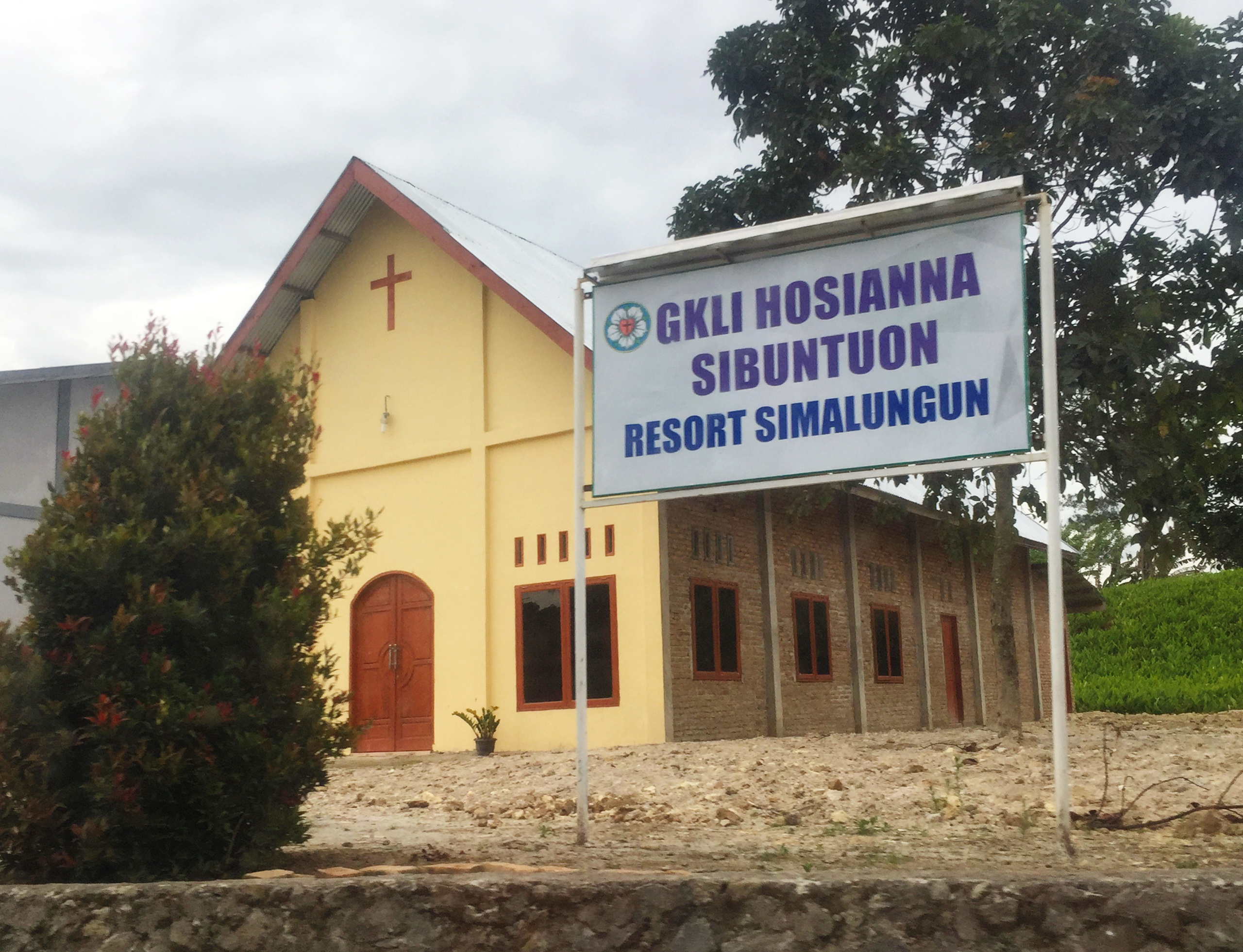 GKLI Hosianna Sibuntuon, Church in Sibuntuon, Dolok Pardamean, Simalungun.